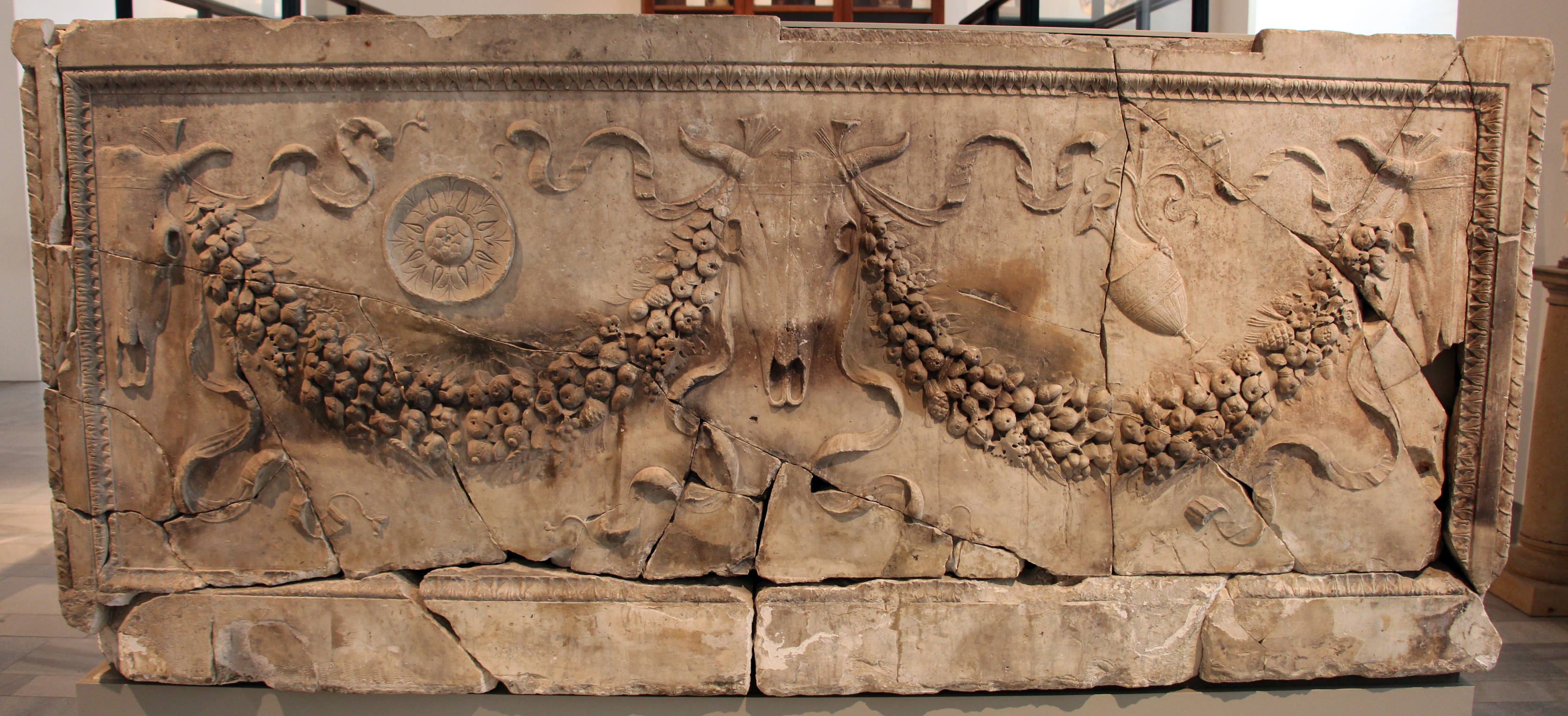 Ancient Greek sculptures in the Antikensammlung Berlin